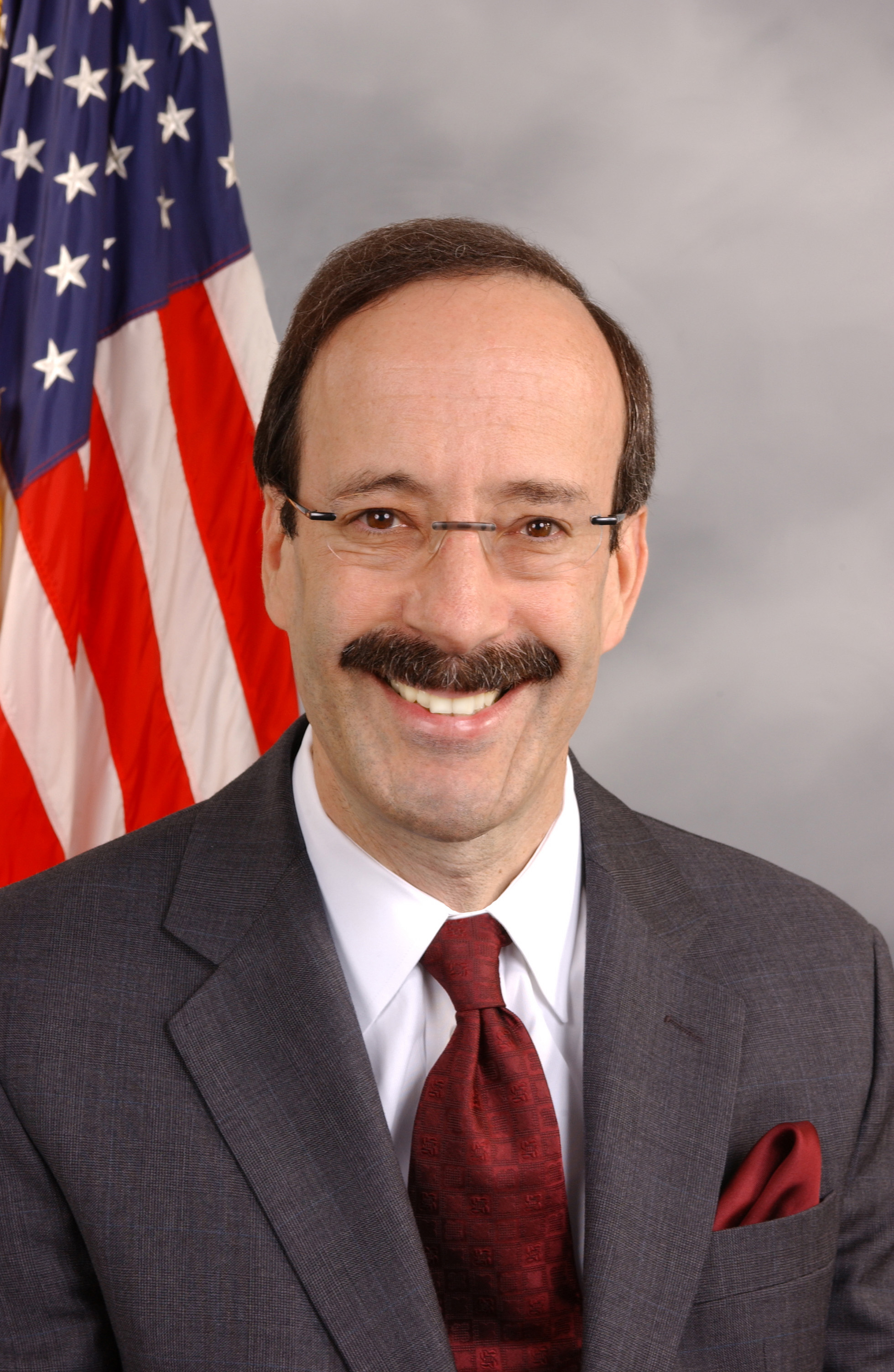 Eliot L. Engel, member of the United States House of Representatives.